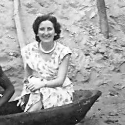 Patricia Horne in Nigeria in the 1950s guess 1955